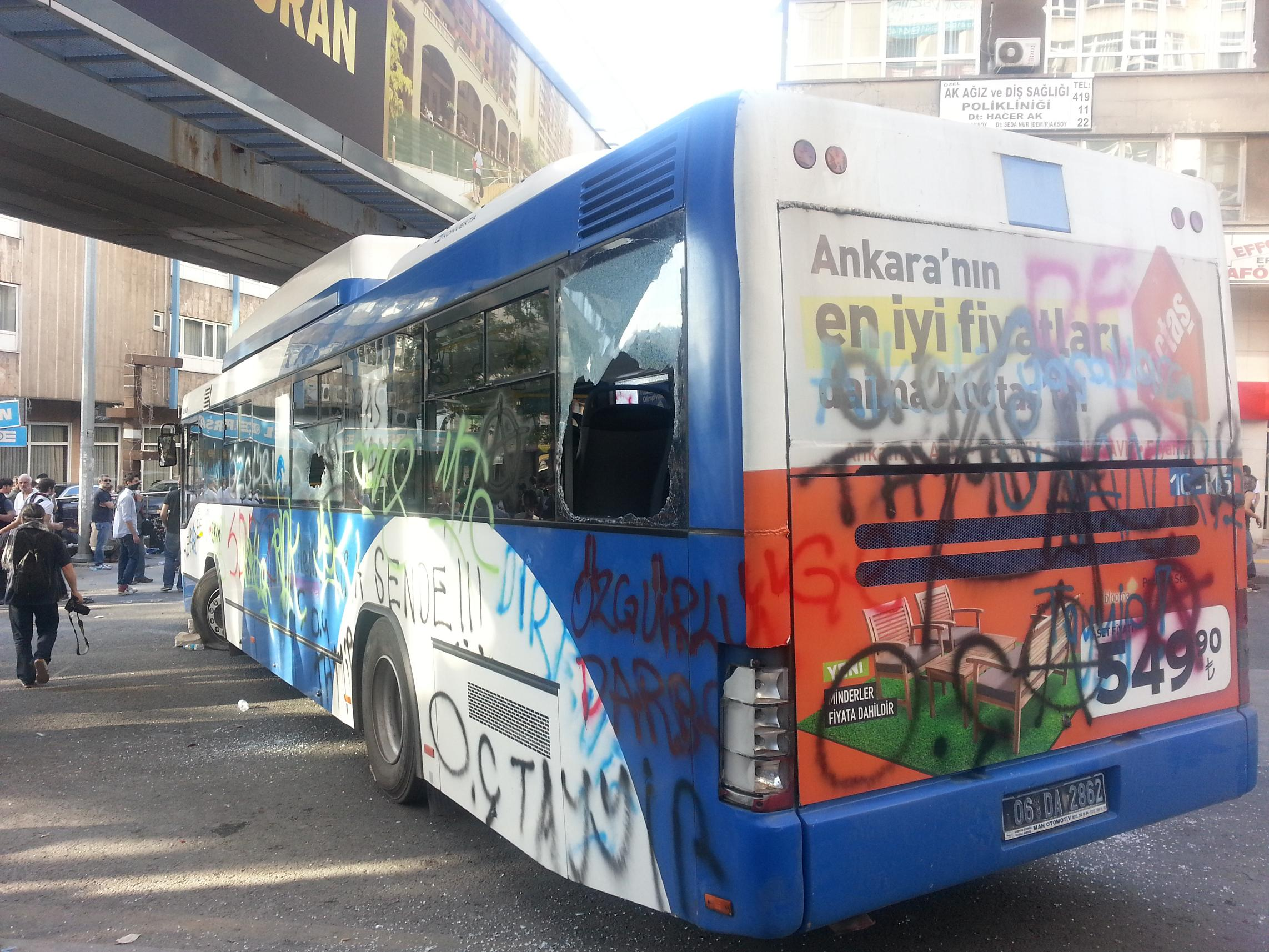 Some provocators burned the bus in 2013 protests in Turkey.